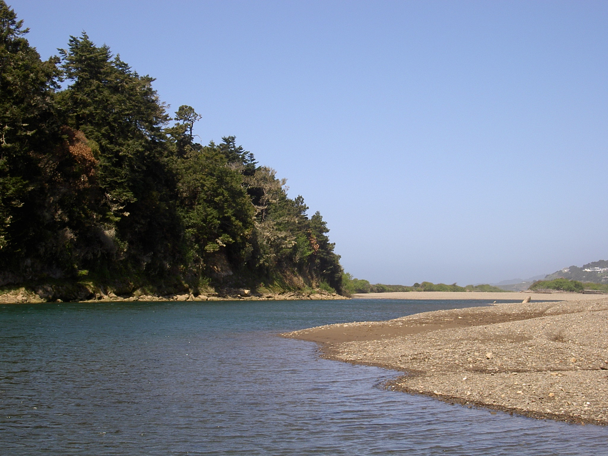 Photograph of the Gualala River near California Route 1, taken by Stephen Gold on April 16, 2007.